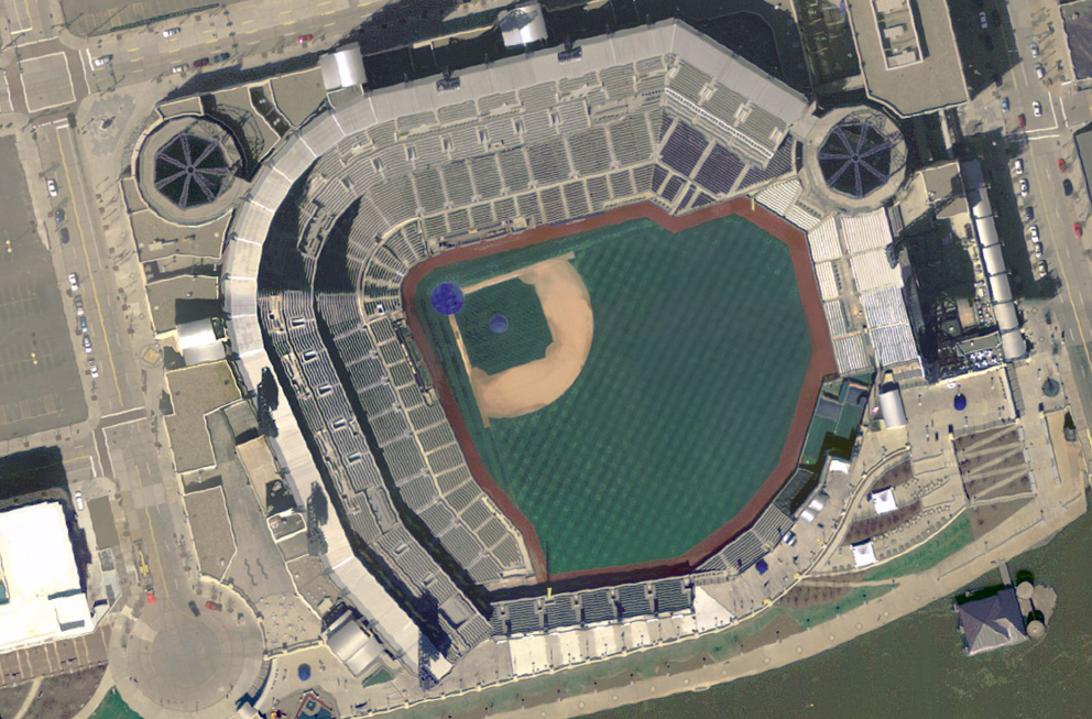 PNC Park satellite view, nasa world wind